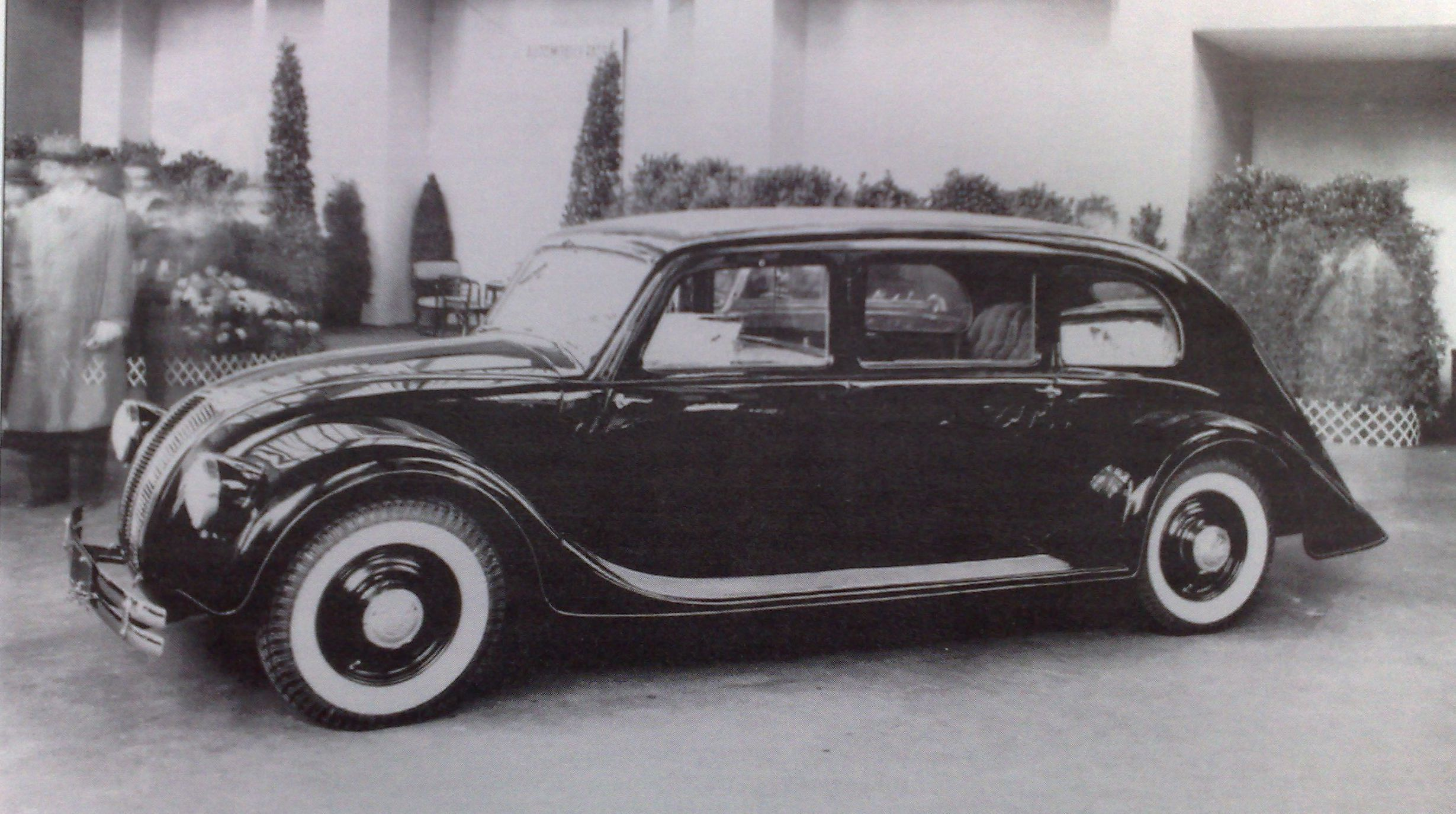 Tatra T90 prototype from 1935.